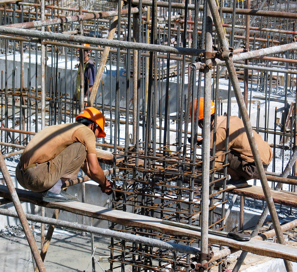 This photo shows two workers tying rebar approximately three stories above the ground. There are several notable safety issues, particularly the lack of personal protective equipment to prevent falls, footwear that provides little protection for the feet or resistance to slips, and narrow, uneven surfaces to walk and work on. In the background, the lack of rebar caps (which are inexpensive) is apparent. This work was being carried out in long shifts and long workweeks, with afternoon temperatures that day around the mid 90s (F).